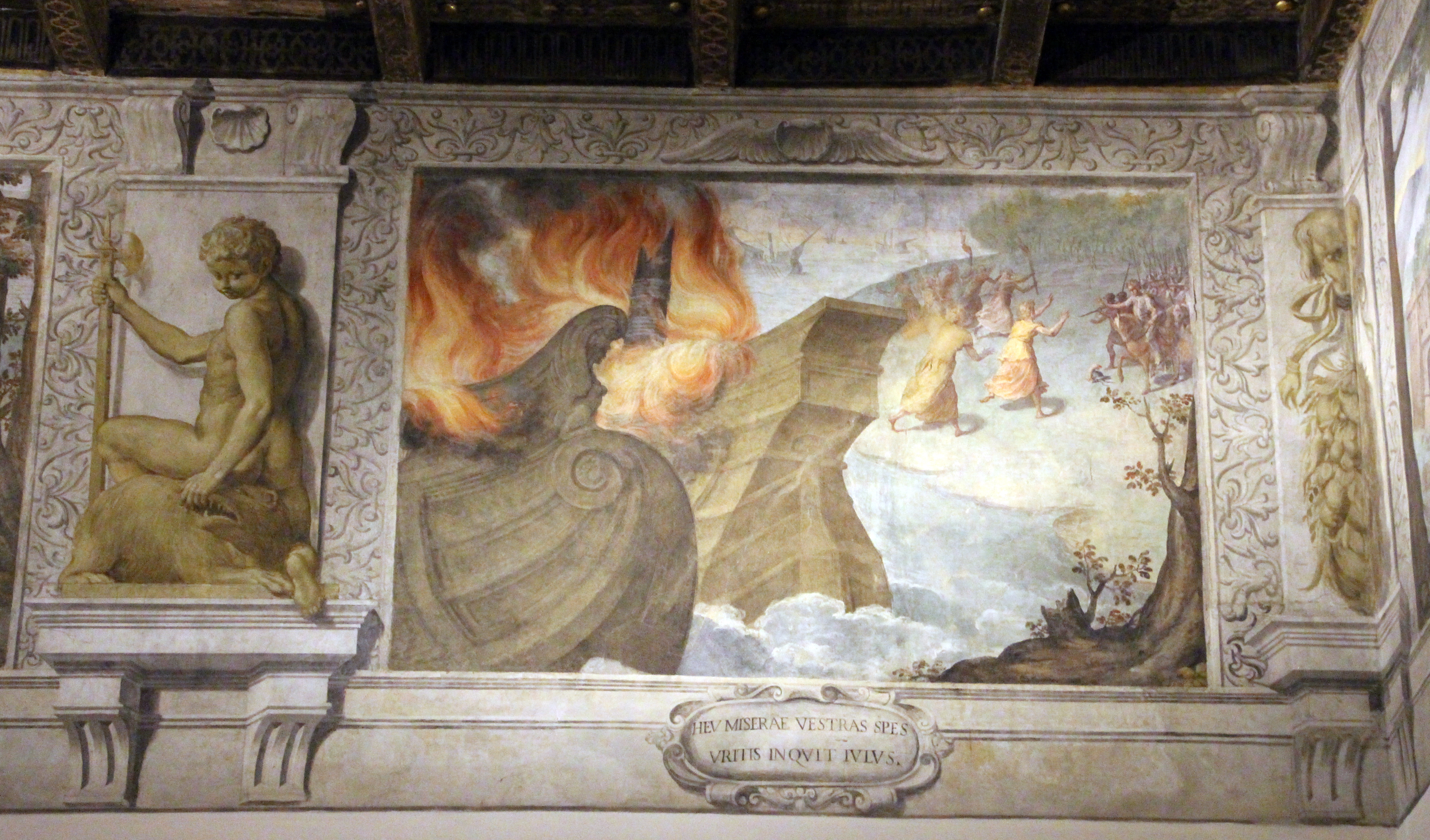 Frieze of Aeneas by Bartolomeo Cesi